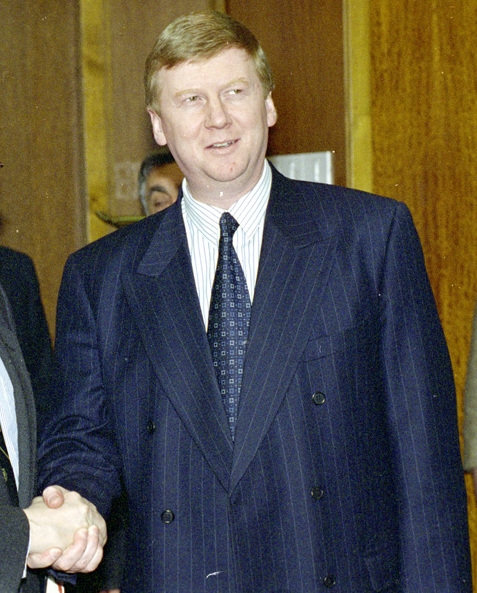 “Russian First Deputy Prime Minister Anatoly Chubais meeting with IMF Managing Director Michel Camdessus”. Russian First Deputy Prime Minister Anatoly Chubais, right, meeting with Managing Director of the International Monetary Fund Michel Camdessus in Moscow.